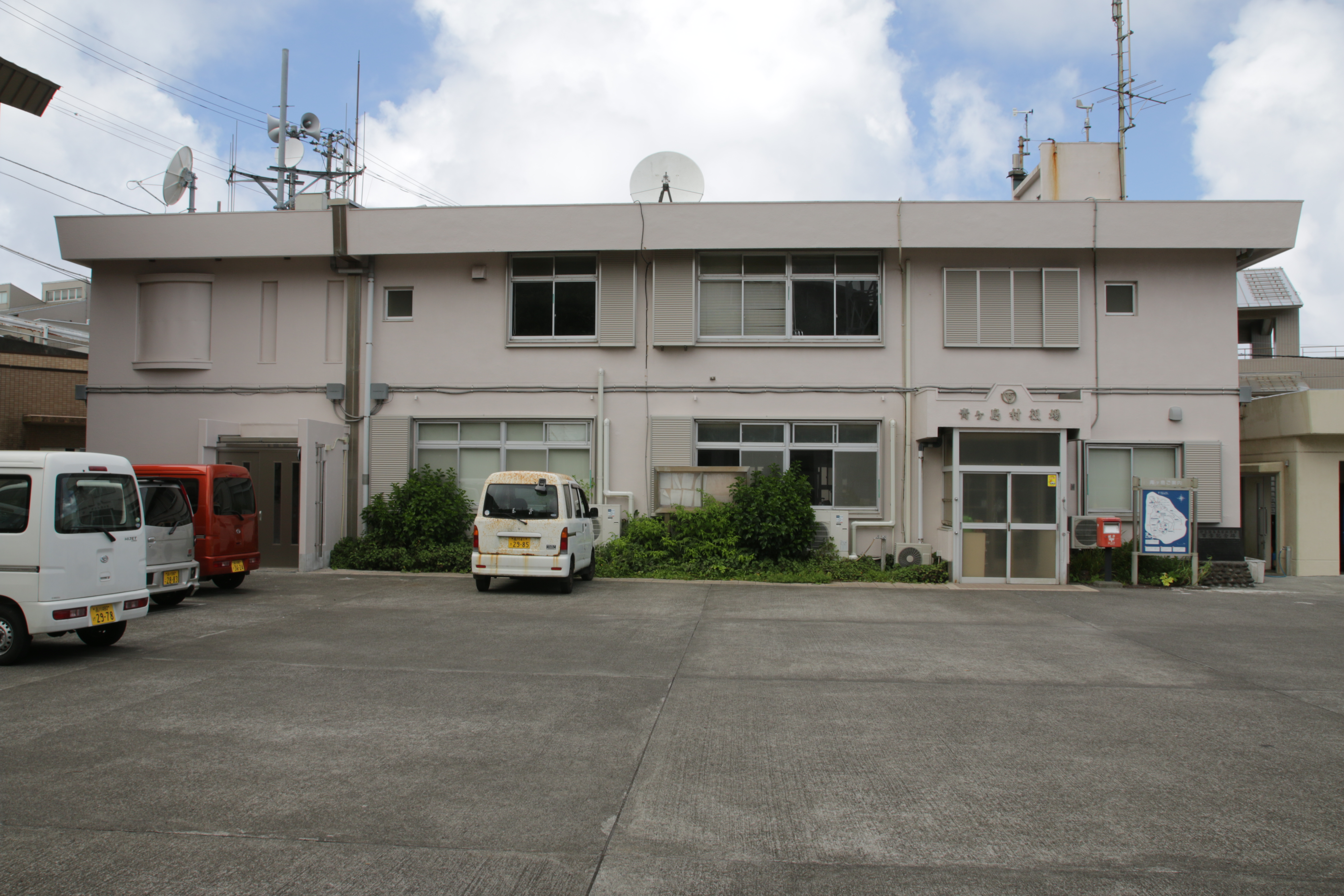 Aogashima-mura office, Izu island, Tokyo, Japan.